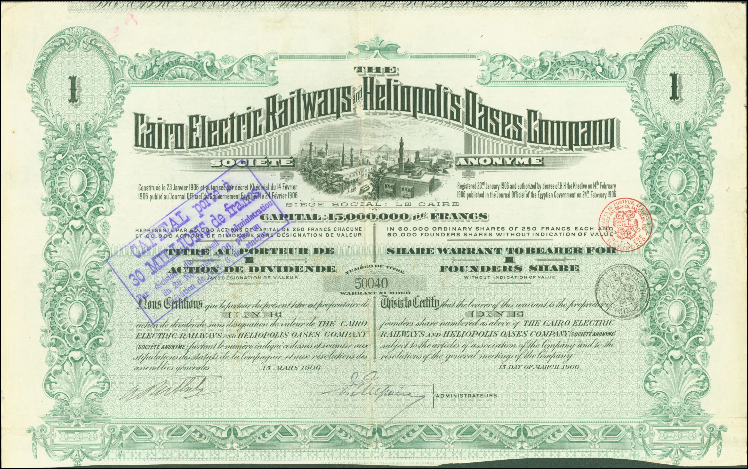 Share of the Cairo Electric Railways and Heliopolis Oases Company, issued 15. March 1906